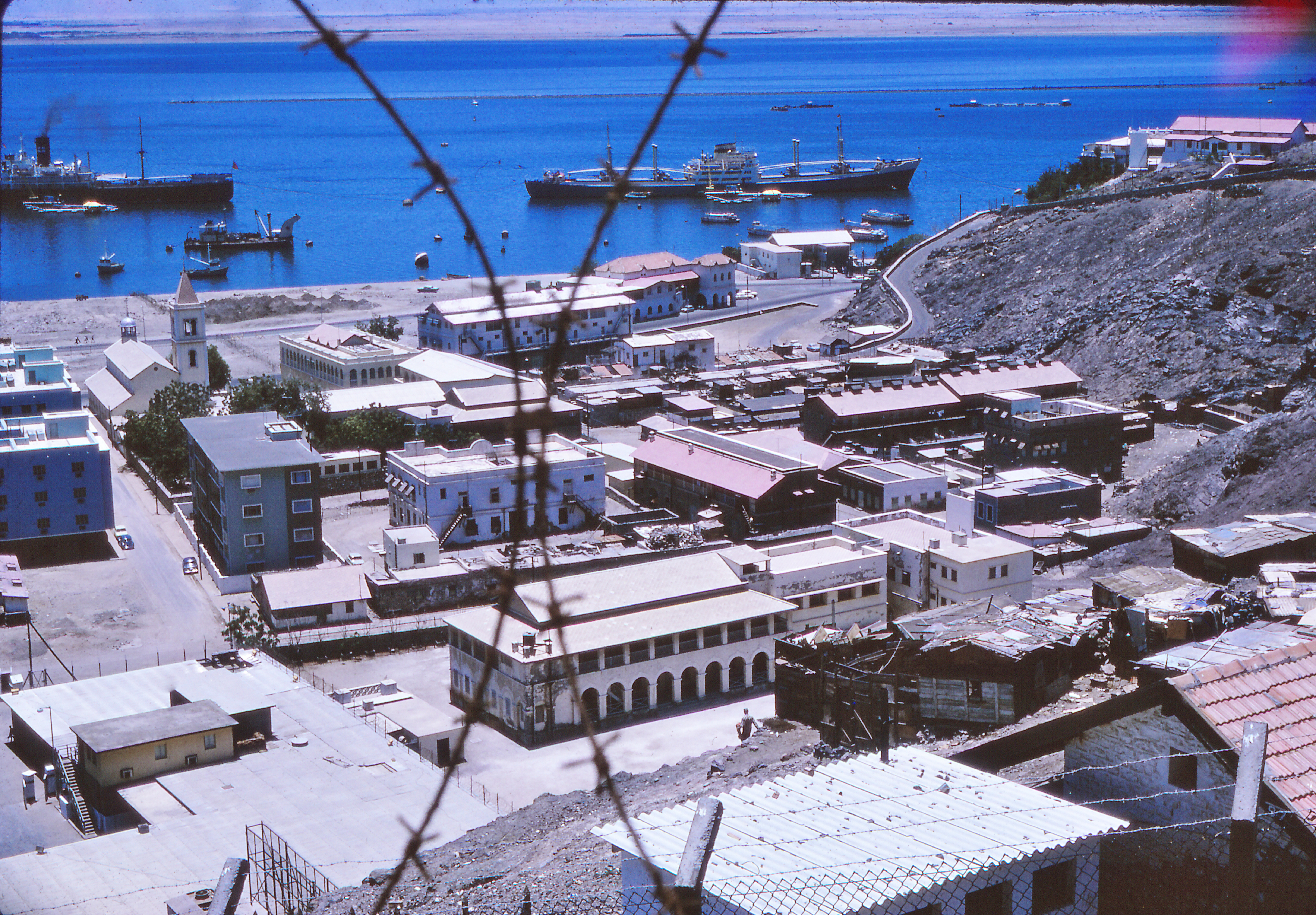 Steamer Point and the Harbour. I wonder if the little white Catholic church on the harbour front still stands?